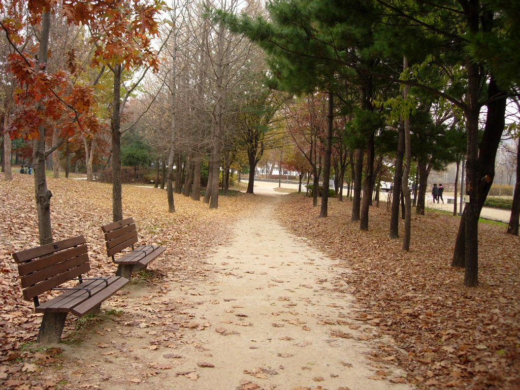 Seoul Forest path